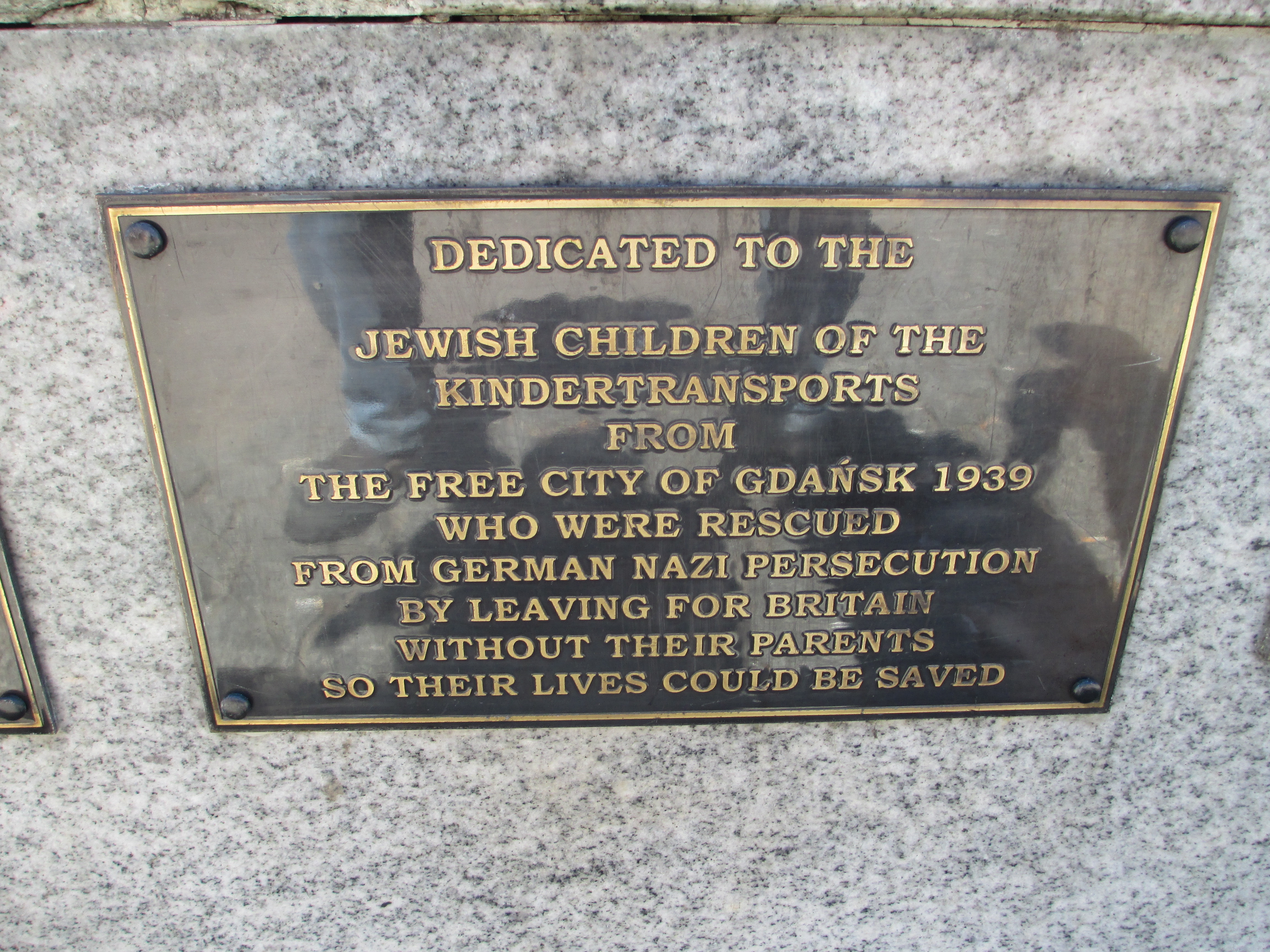 memorial plaque in kindertransport memorial in gdansk